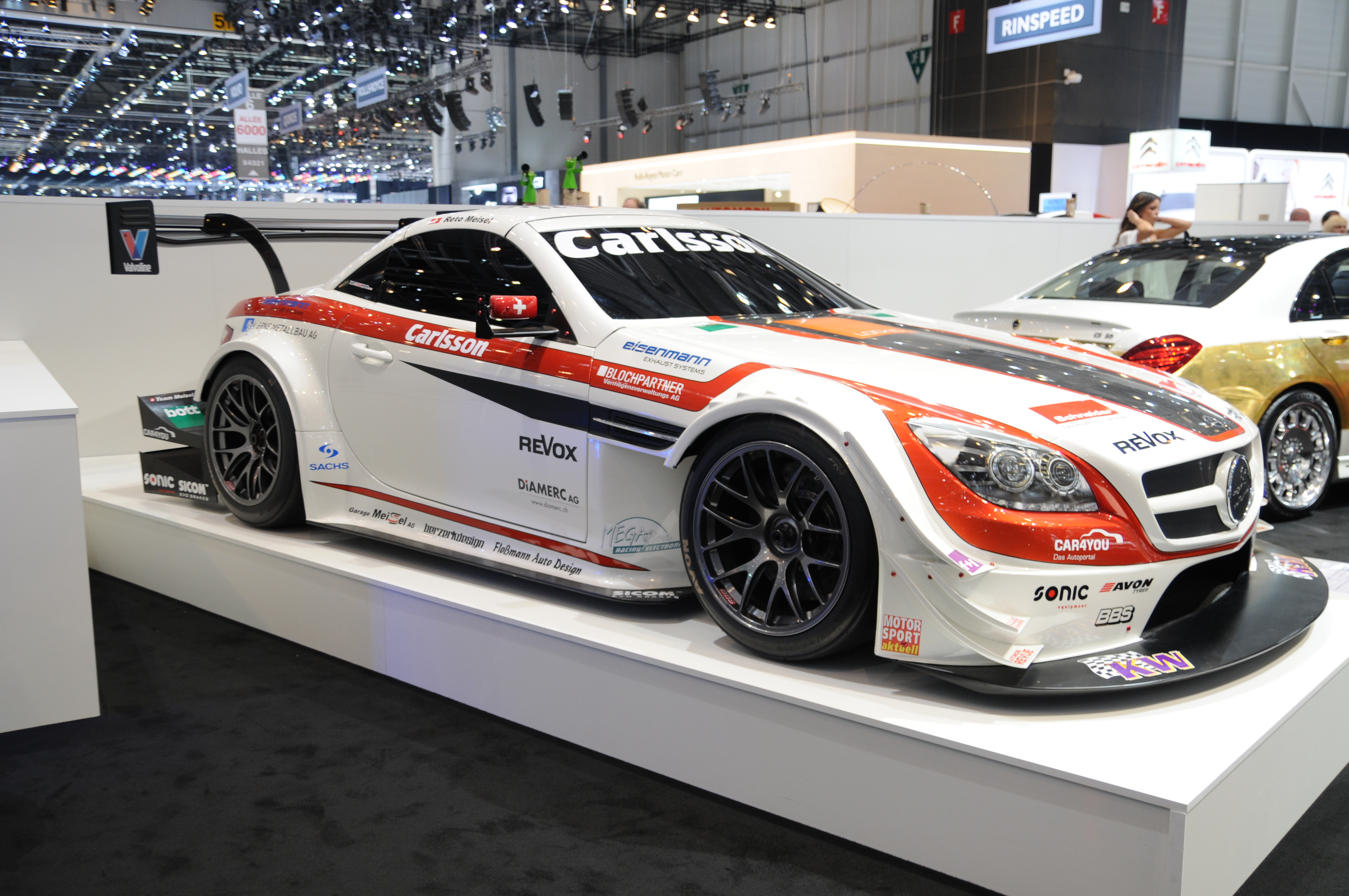 Geneva Motor Show 2014 (photo taken on the first press day)